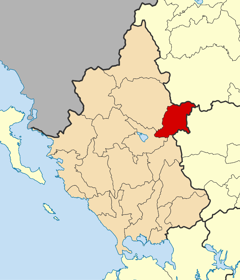 Locator map for Metsovo municipality in Greek region Epirus (2011)